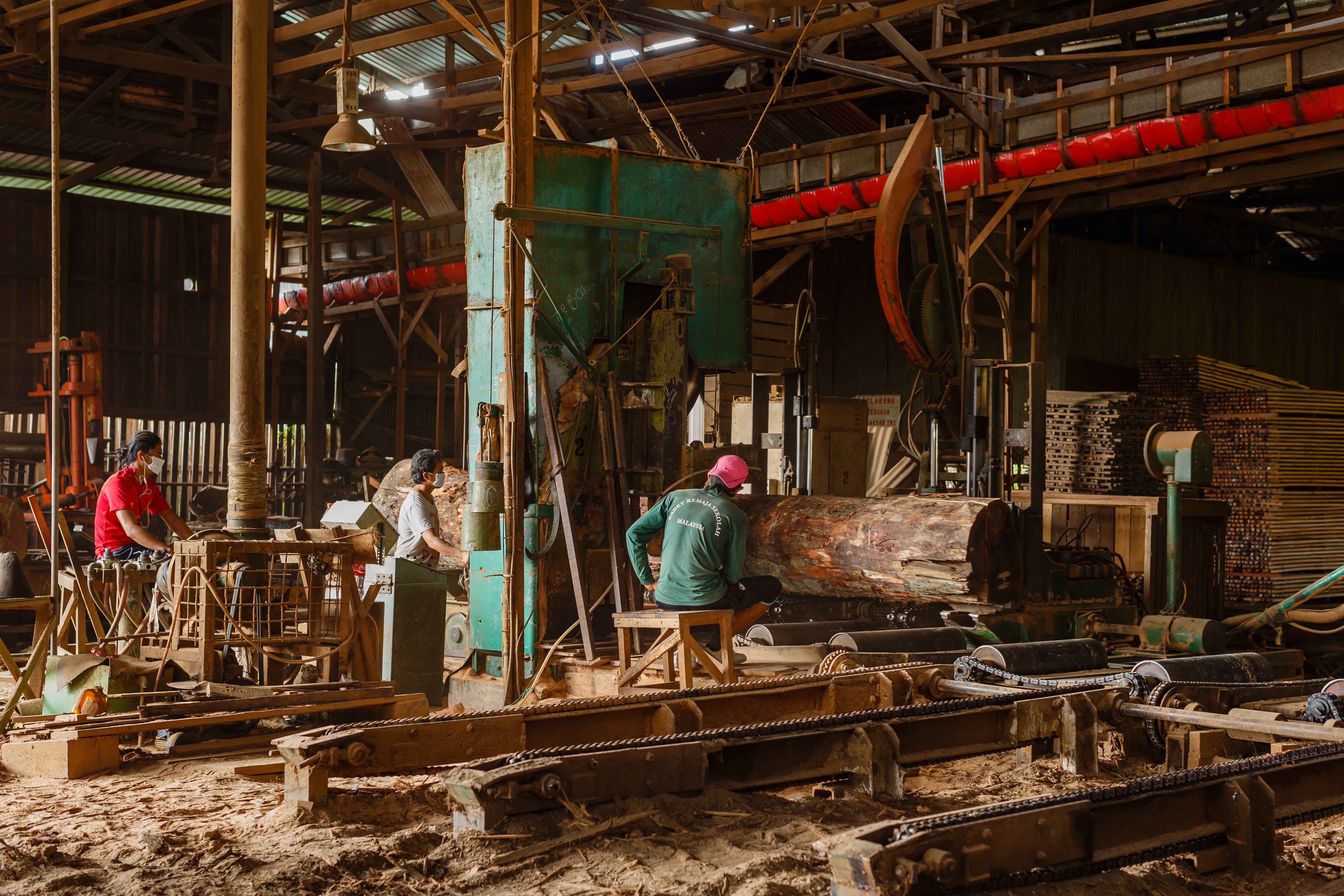 Sandakan, Sabah: Workers are cutting big timbers into planks in a sawmill of Seguntor Industrial Area